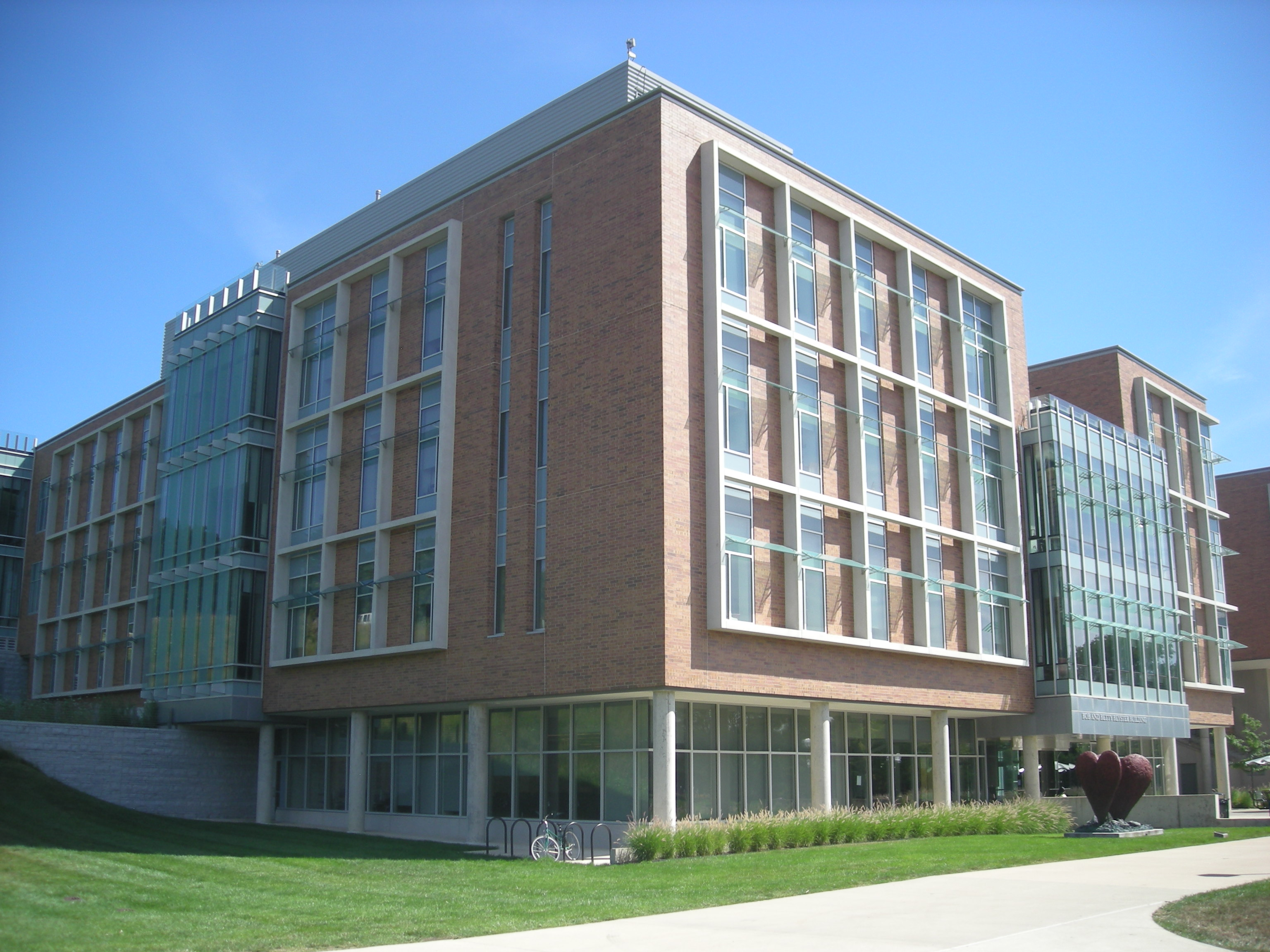 The Bob and Betty Beyster Building on the north campus of the University of Michigan in Ann Arbor, Michigan (United States).